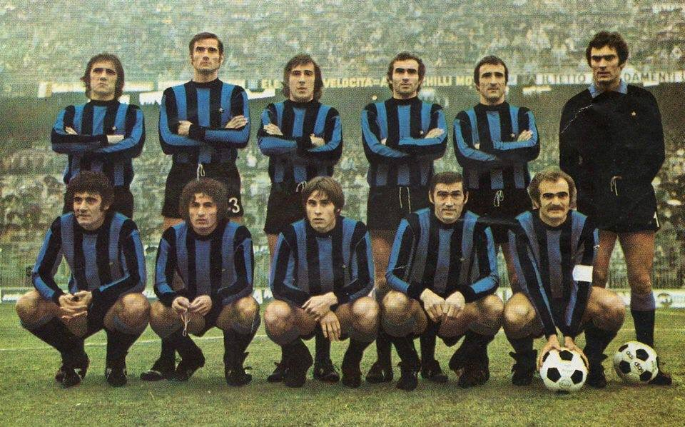 A line-up of Inter Milan in the 1973–74 season, posing inside the San Siro Stadium in Milan. From left to right, standing: R. Boninsegna, G. Facchetti, A. Fedele, M. Giubertoni, G. Bedin, L. Vieri; crouched: G. Mariani, G. Massa, G. Oriali, T. Burgnich, S. Mazzola (captain).